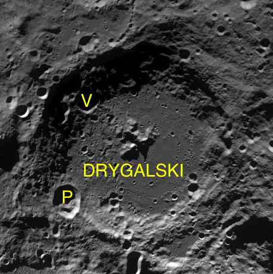 Clementine image used for the presentation